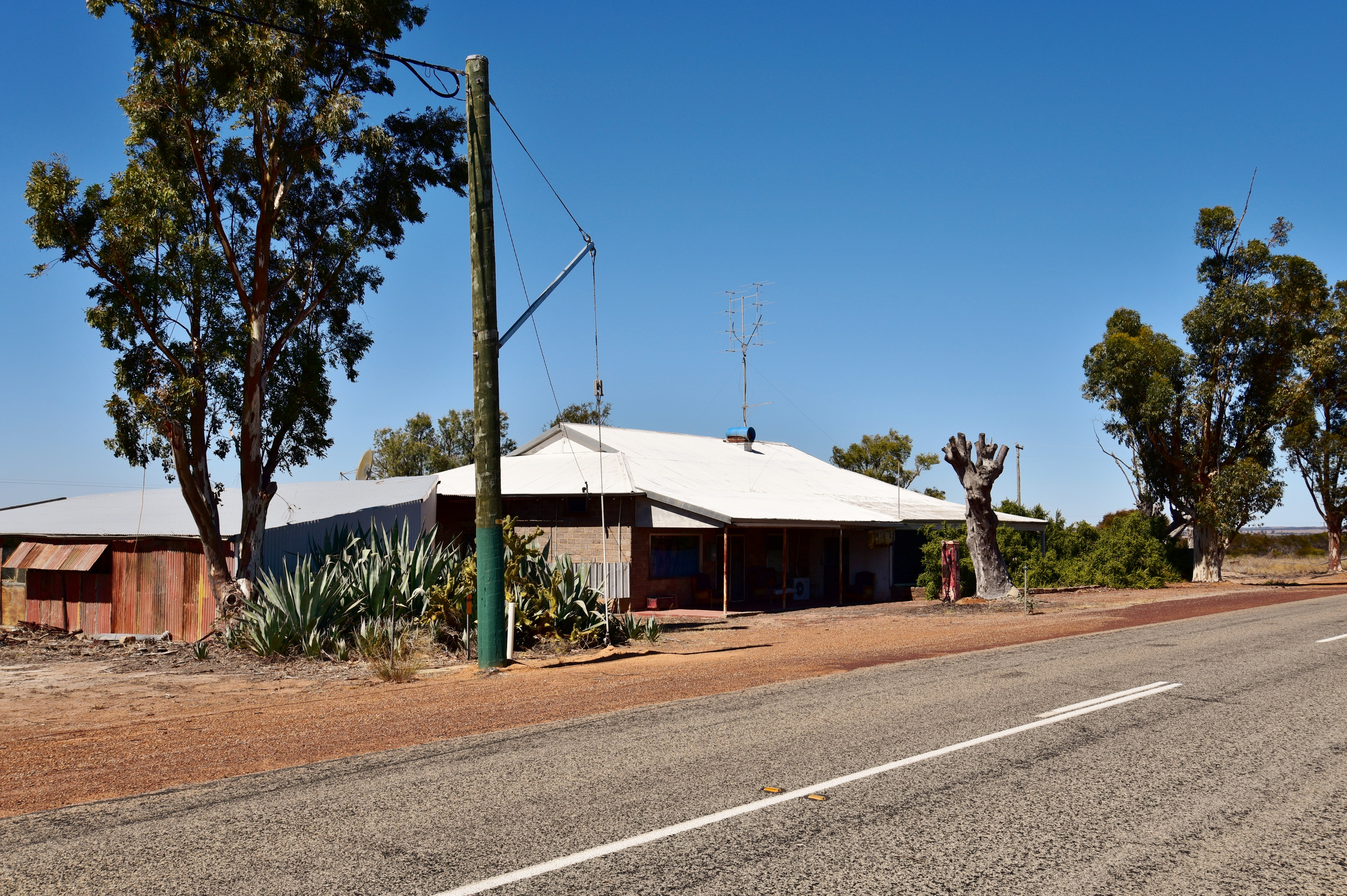 View of the former Kondut Post Office and Quarters, Craig Street, Kondut, Western Australia